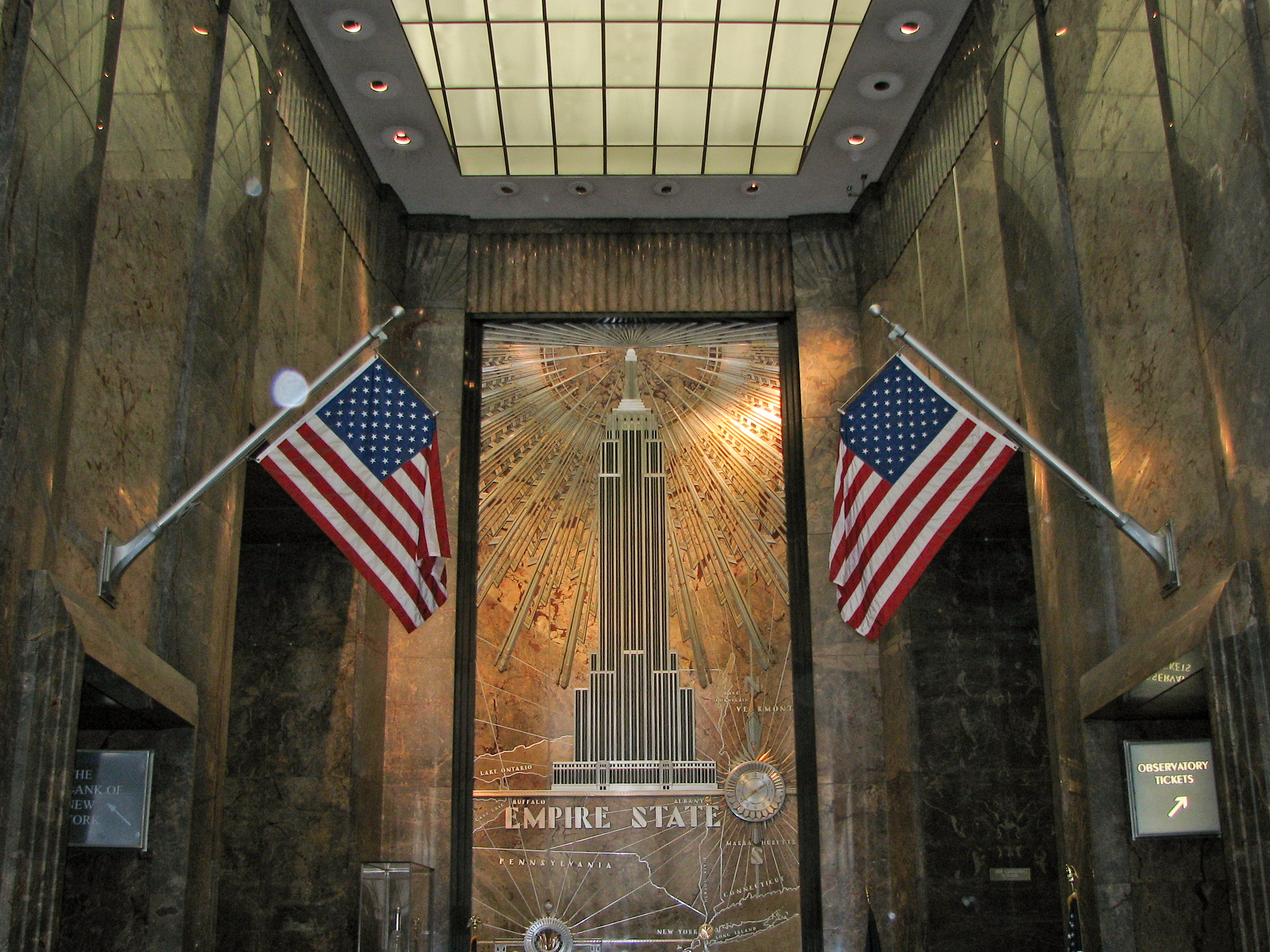 New York City - Empire State Building entrance hall